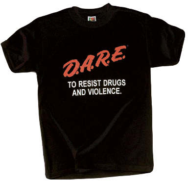 D.A.R.E. T-shirt